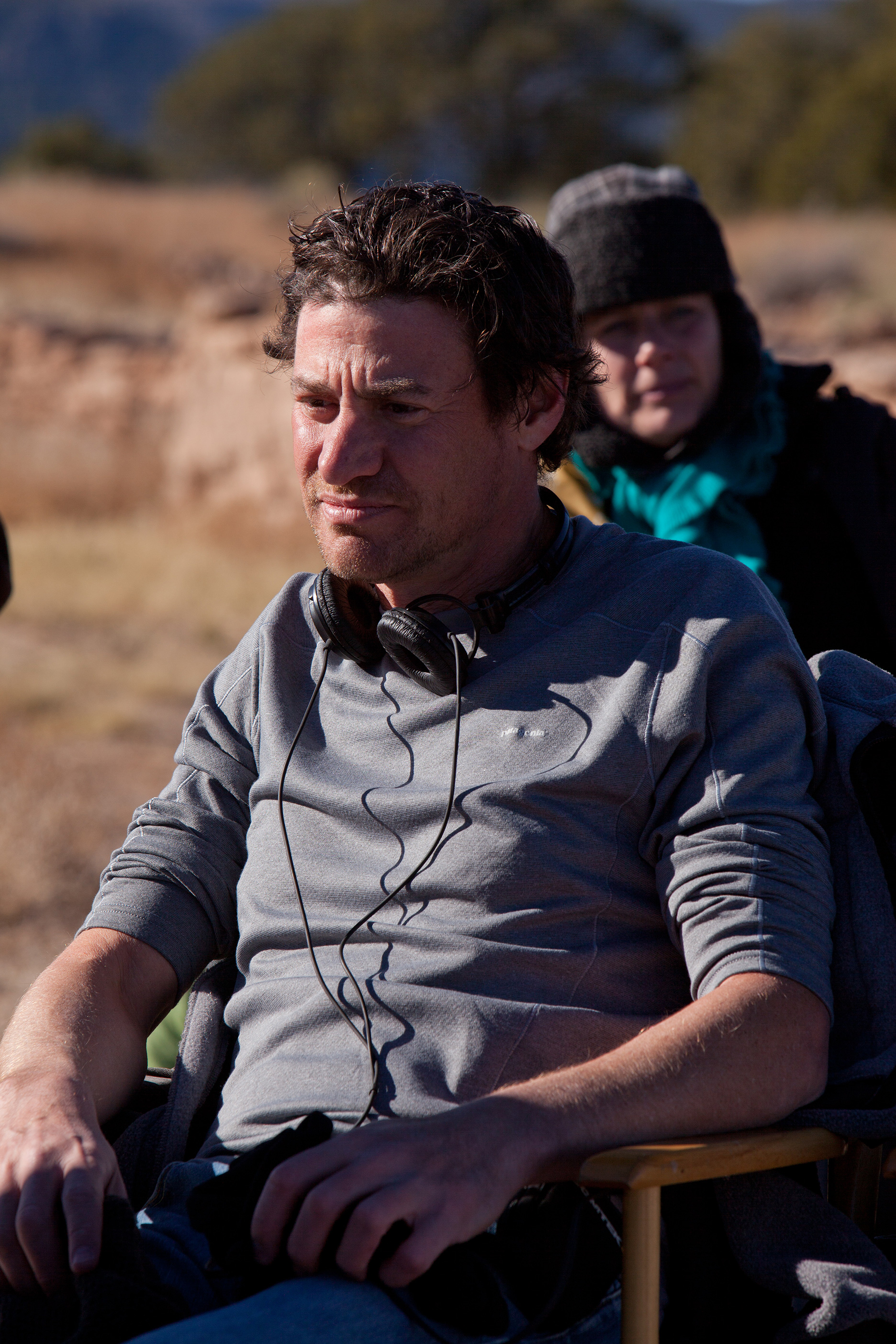 Lawrence Blume on the set of Tiger Eyes, in New Mexico